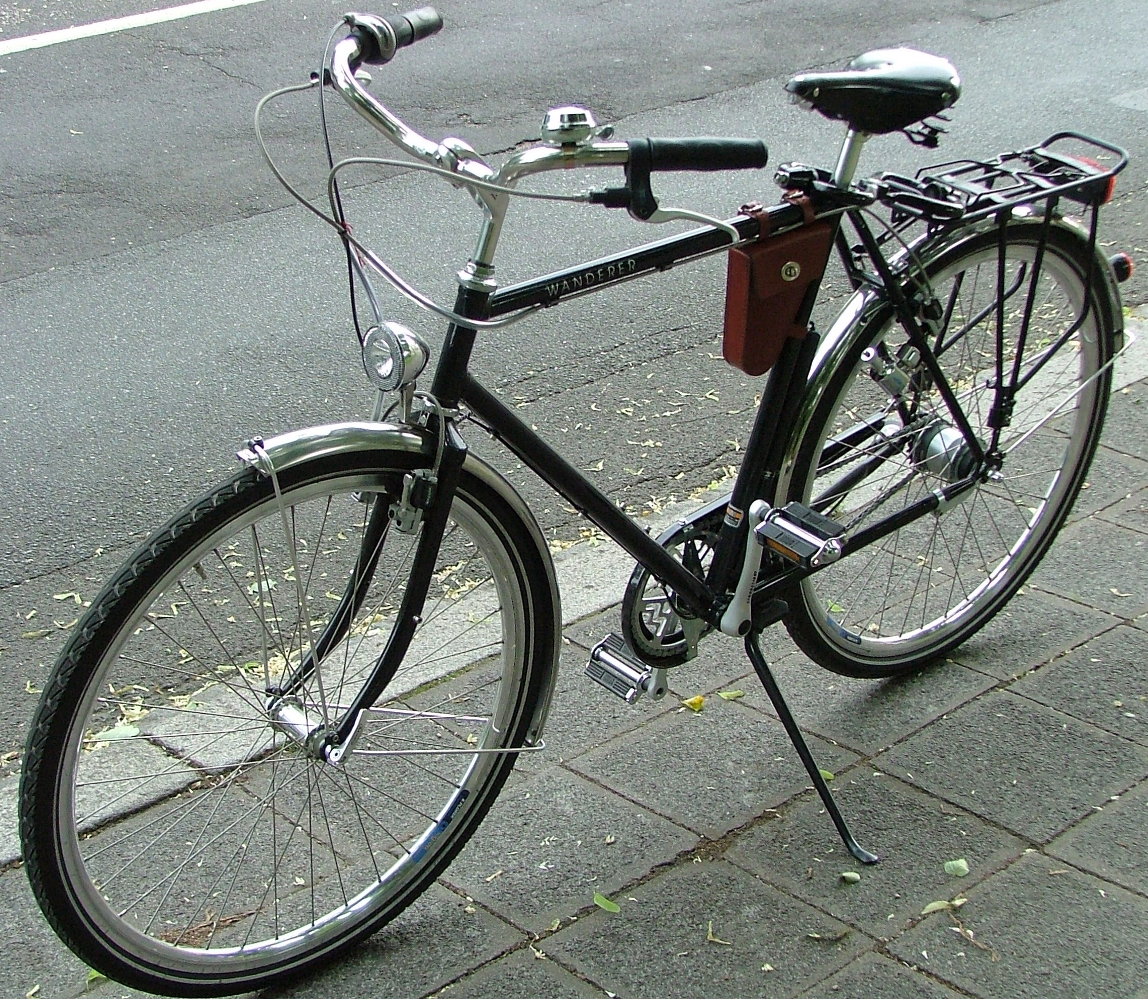 "Wanderer" Bicycle from 2004